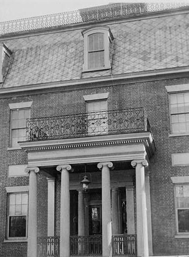 Griffin-Mott House, Mott Street & Front Avenue, Columbus (Muscogee County, Georgia) cropped